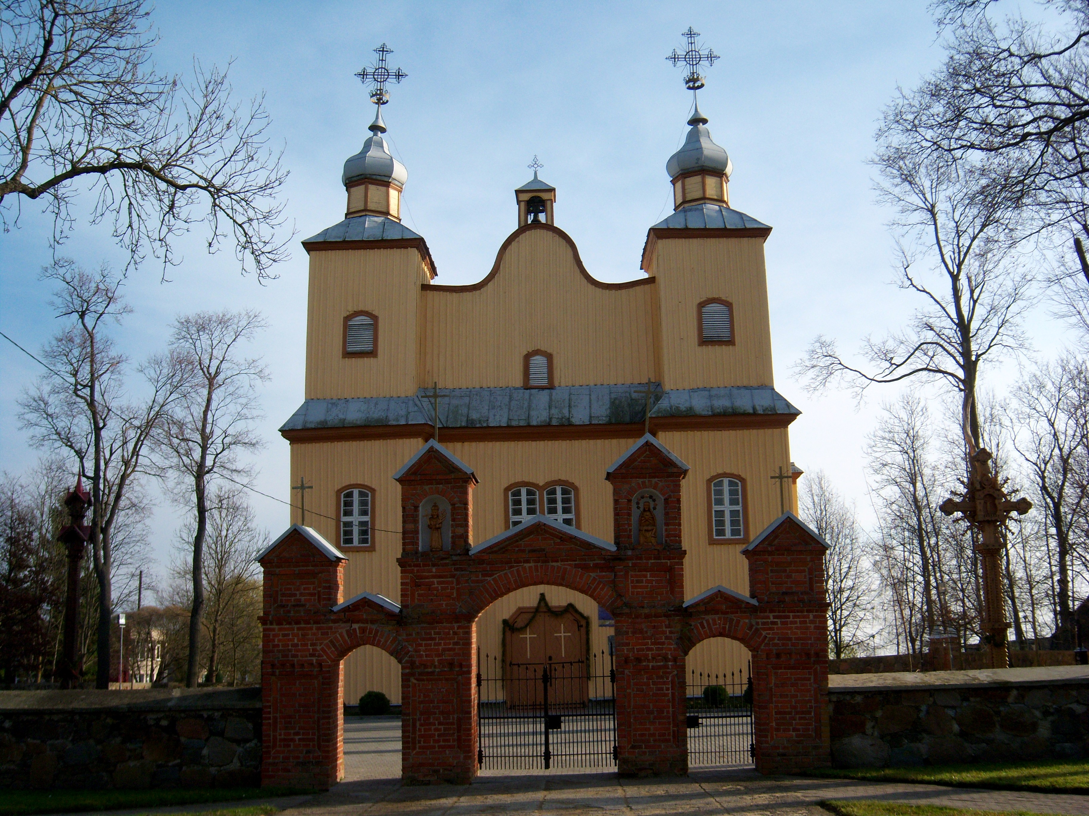 Roman Catholic Church in Smilgiai, Panevėžys District, Lithuania